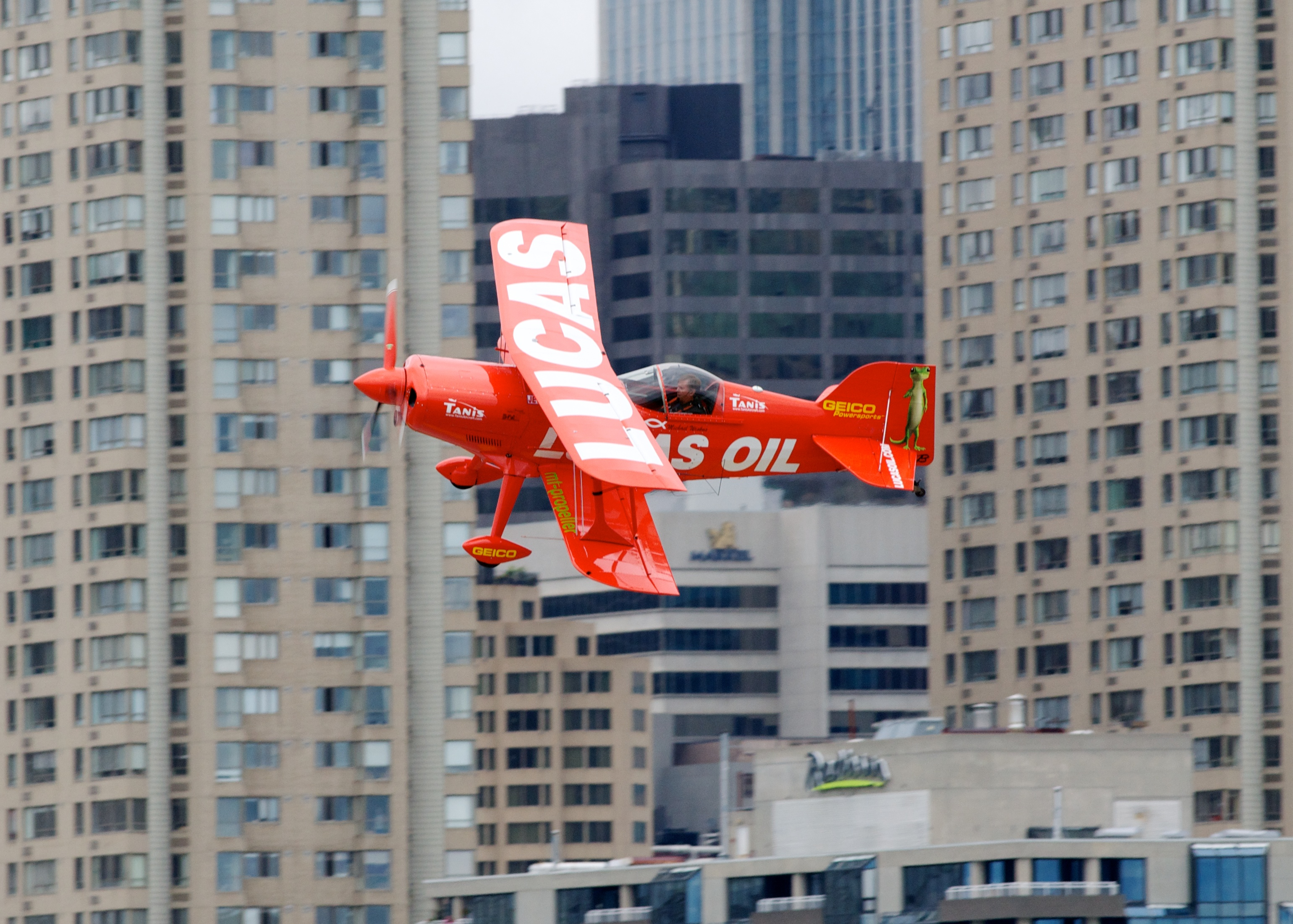 Michael Wiskus in the Lucas Oil Pitts Special. Canadian International Air Show.